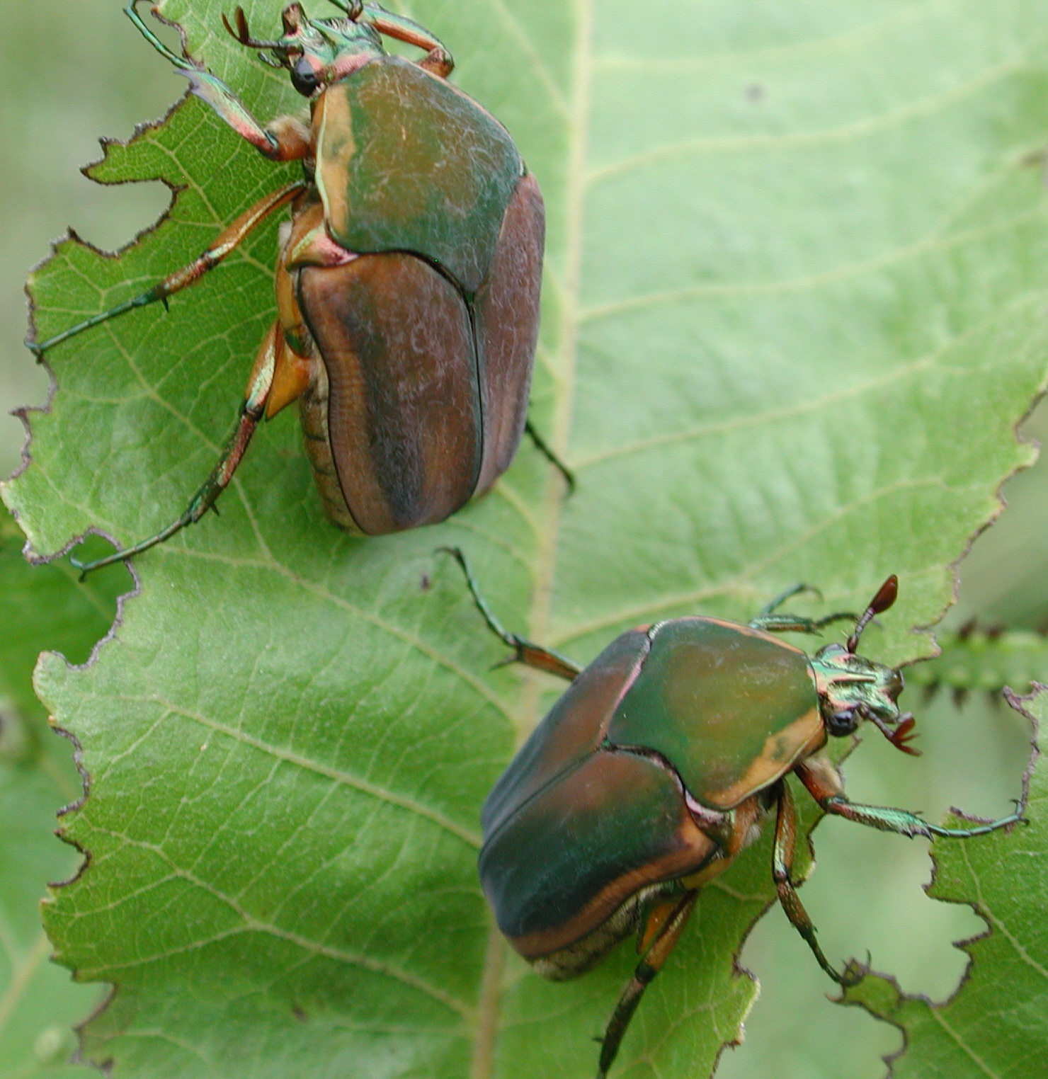 Green june beetle. Author: Stephen Friedt